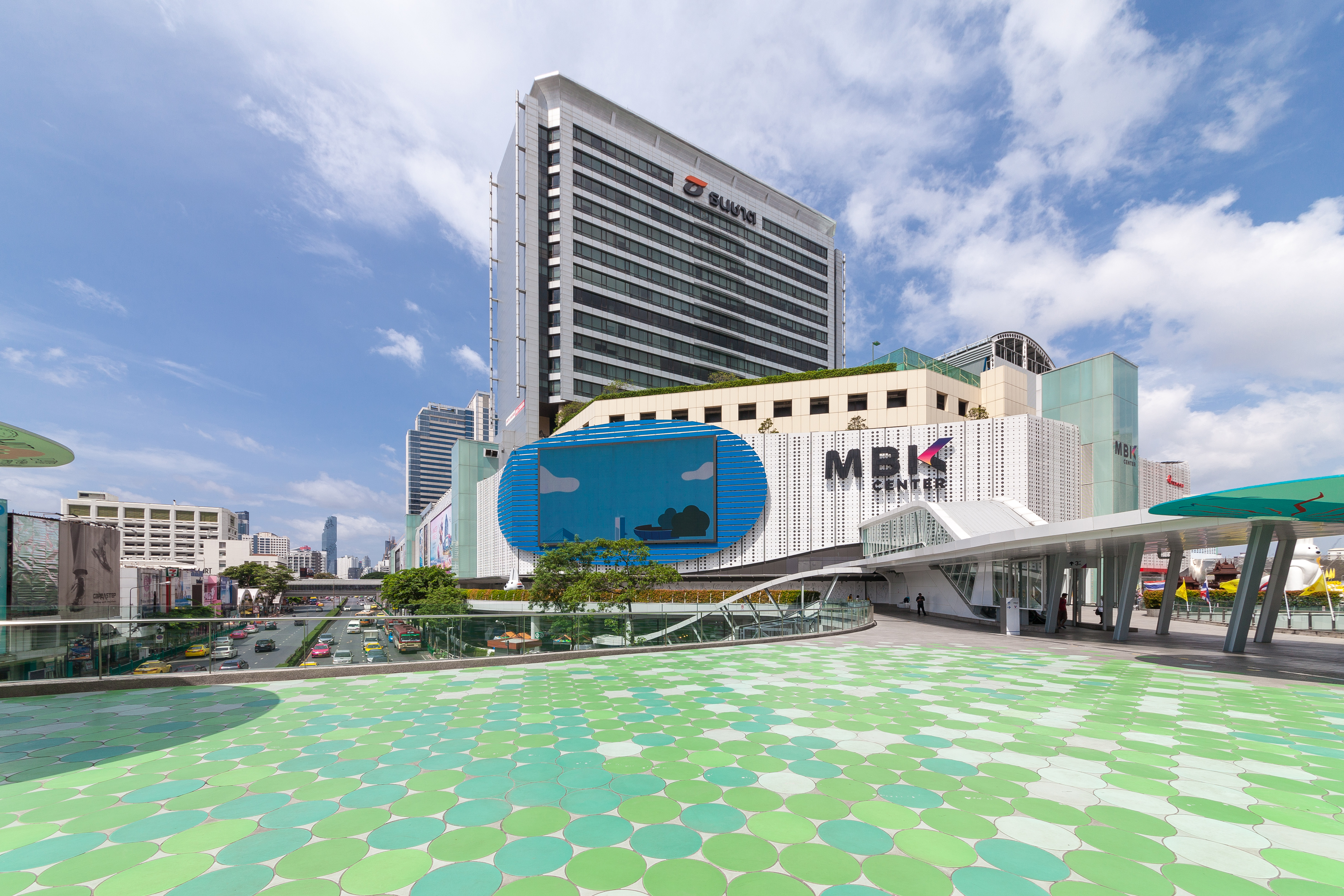 MBK Center is a shopping mall in Bangkok.